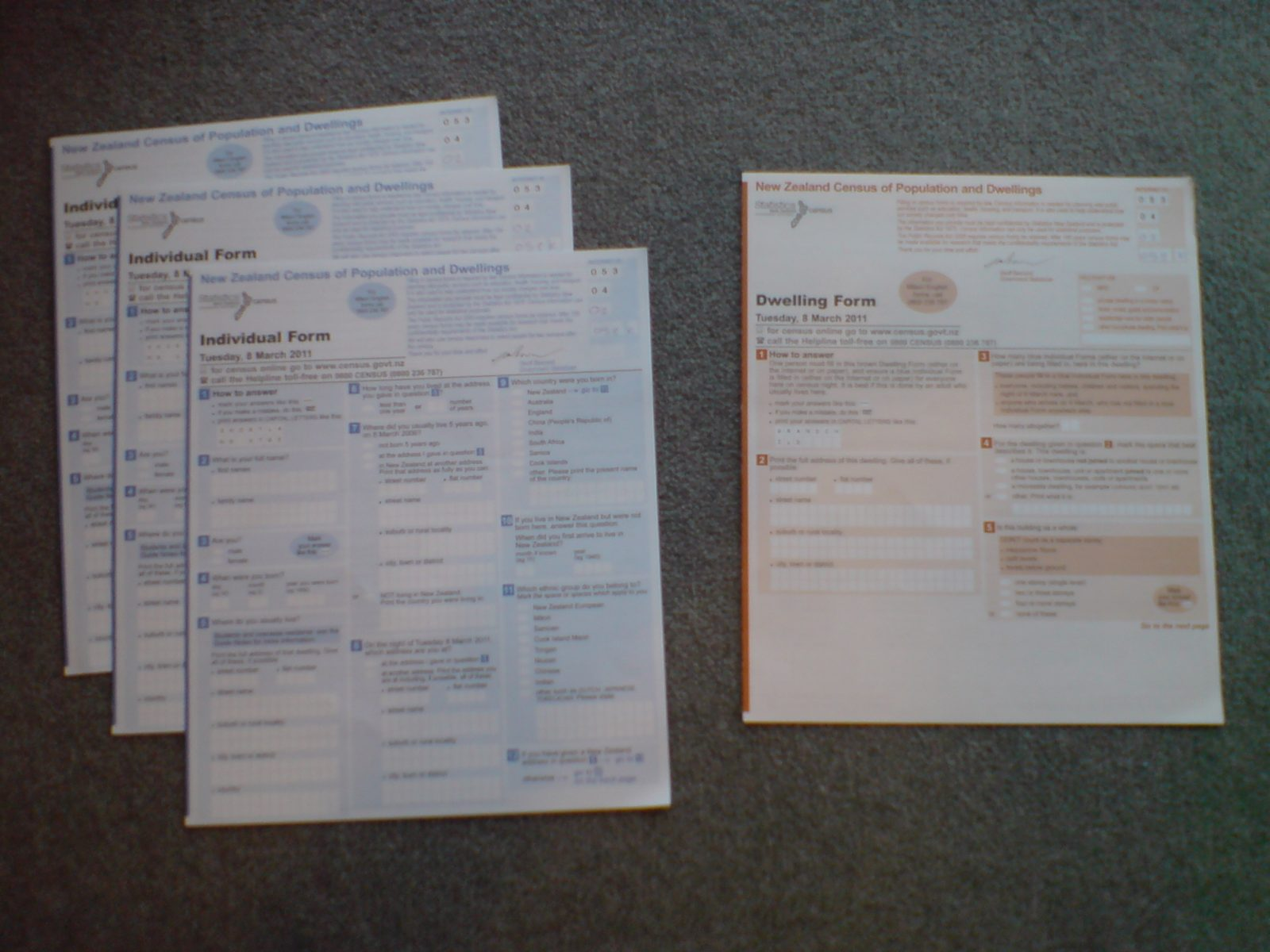 The forms for the 2011 Census in New Zealand. This was aborted shortly before taking place due to the Christchurch earthquake.